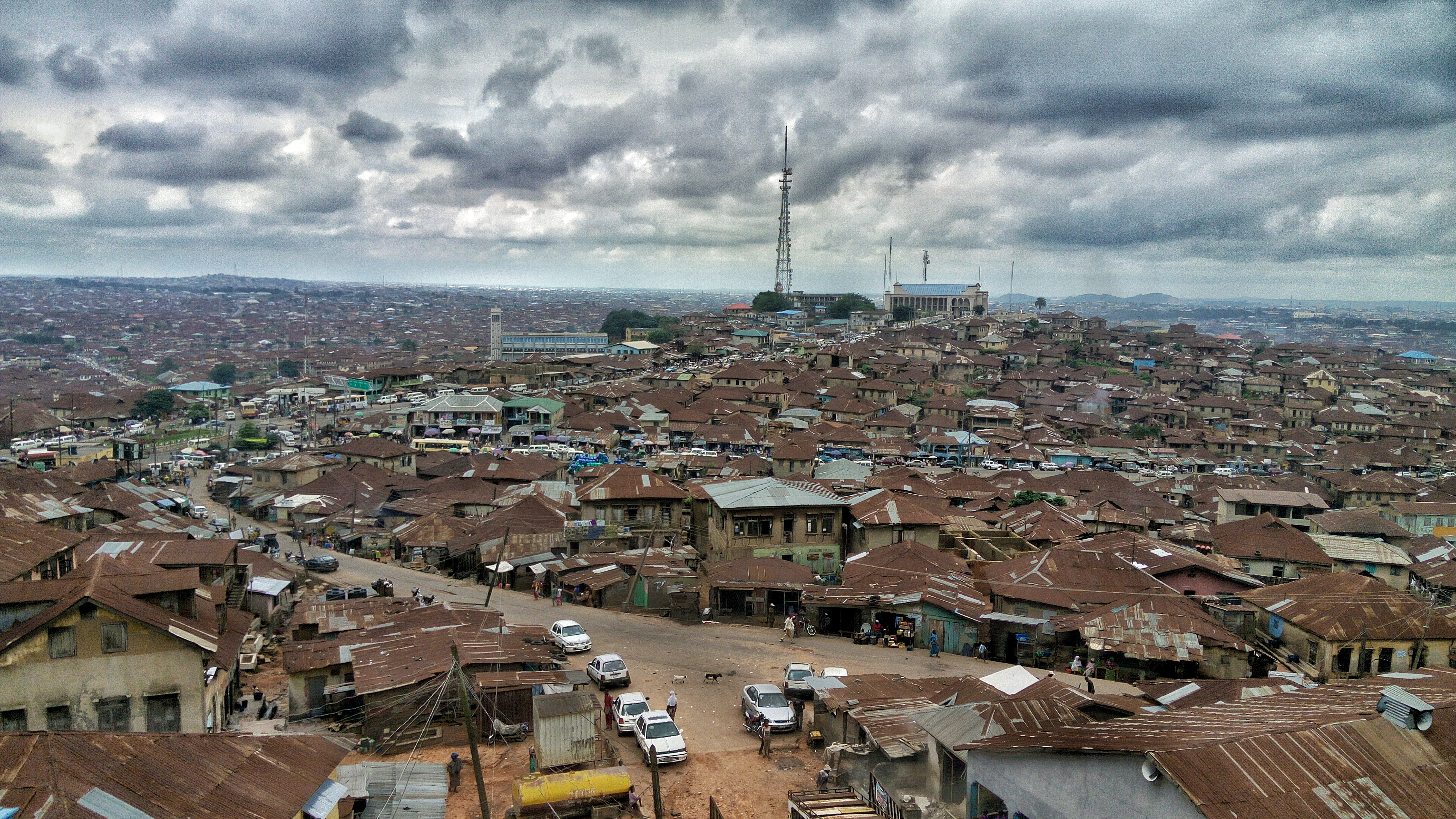 Ibadan skyline roof top